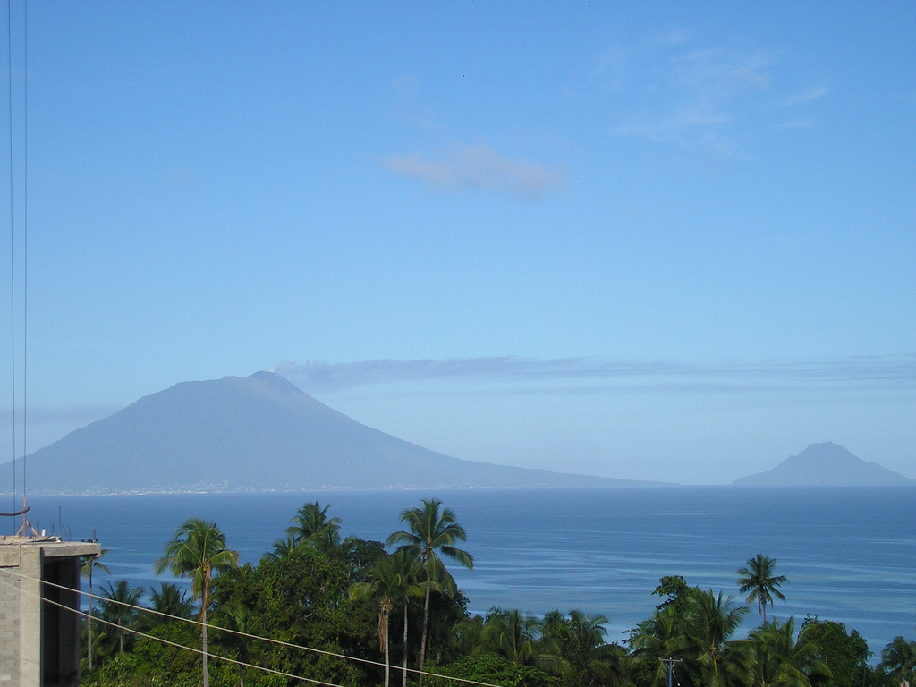 View of Ternate Island off west coast of Halmahera, Indonesia